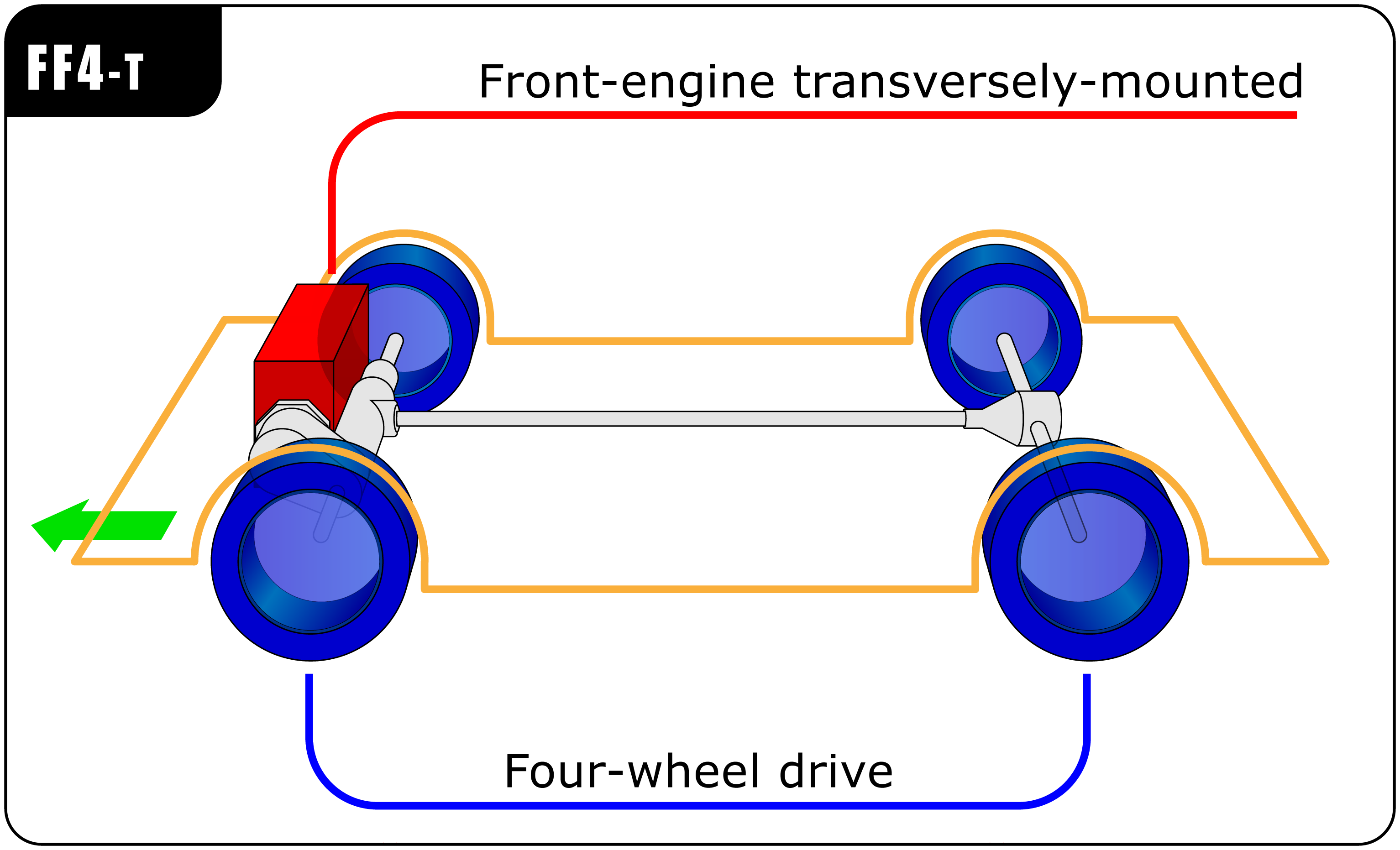 Vehicle engine and drive wheel placement diagrams (German versions coming soon)